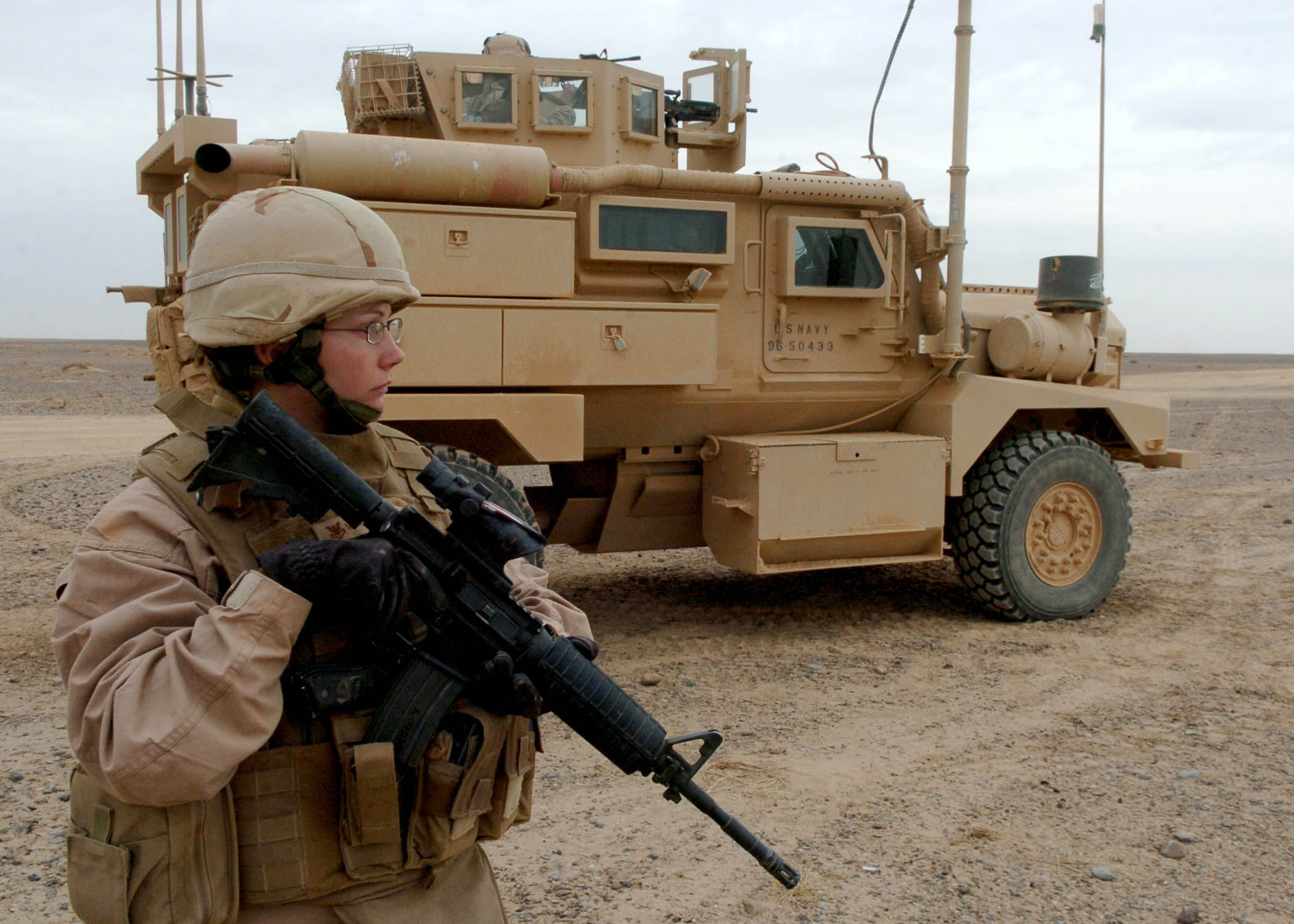 HELMAND PROVINCE, Afghanistan (Dec. 8, 2009) Construction Electrician 2nd Class Alicia Morgan, assigned to the Naval Mobile Construction Battalion (NMCB) 74 convoy security element, provides entry control point security at a road project site. NMCB-74 has been charged with improving key convoy routes in Helmand Province, Afghanistan. (U.S. Navy photo by Mass Communication Specialist 2nd Class Michael Lindsey/Released)